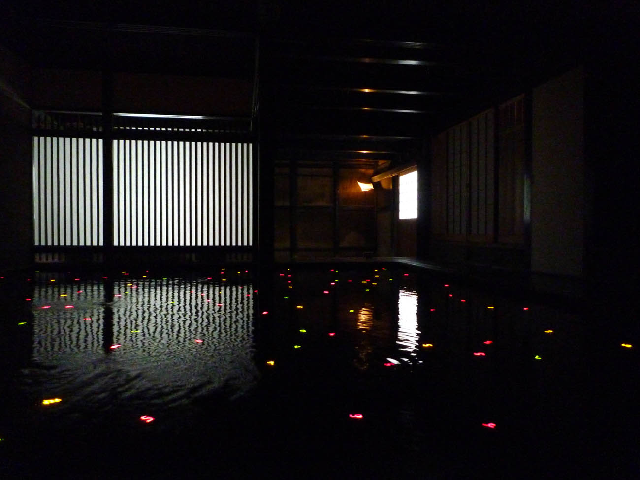 Art House Project in Honmura (Naoshima).